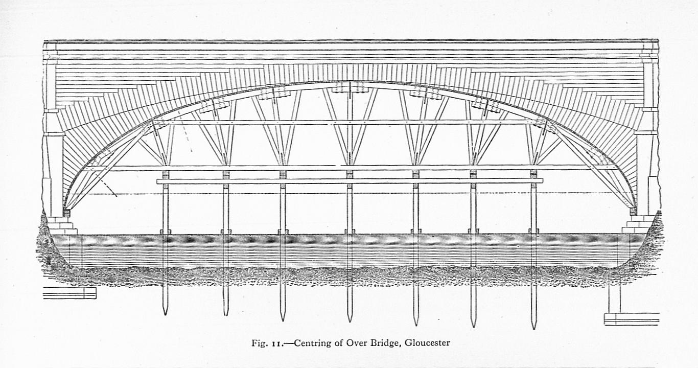 Wooden centring used during the construction of Over Bridge